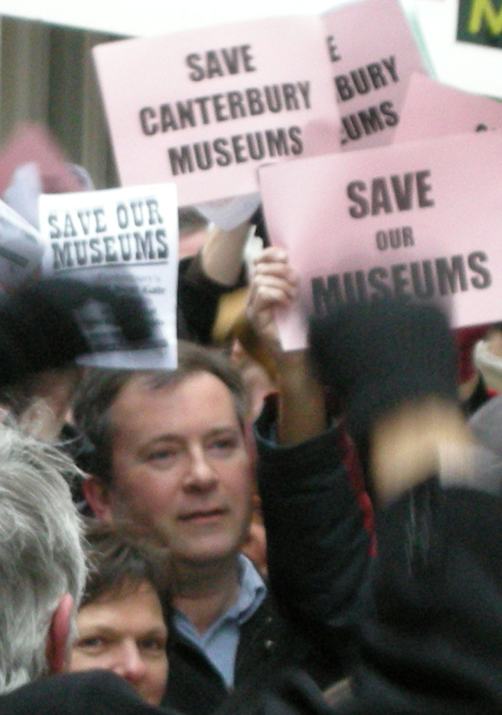 A flash mob, or 30-minute crowd-gathering, created as a Media event outside the Roman Museum in narrow Butchery Lane, Canterbury, Kent by councillors James Flanagan and Alex Perkins, (CAT) at midday on 13 February 2010. The event was to raise Media awareness that Canterbury and Herne Bay museums were threatened with closure by the City of Canterbury budget 2010−2011. All those present were aware that they were there to be photographed. The man in the blue shirt is Guy Voyzey. (This image was previously wrongly identified as Councillor James Flanagan of Canterbury Westgate ward, who started a petition and Facebook pressure group against the closures.)